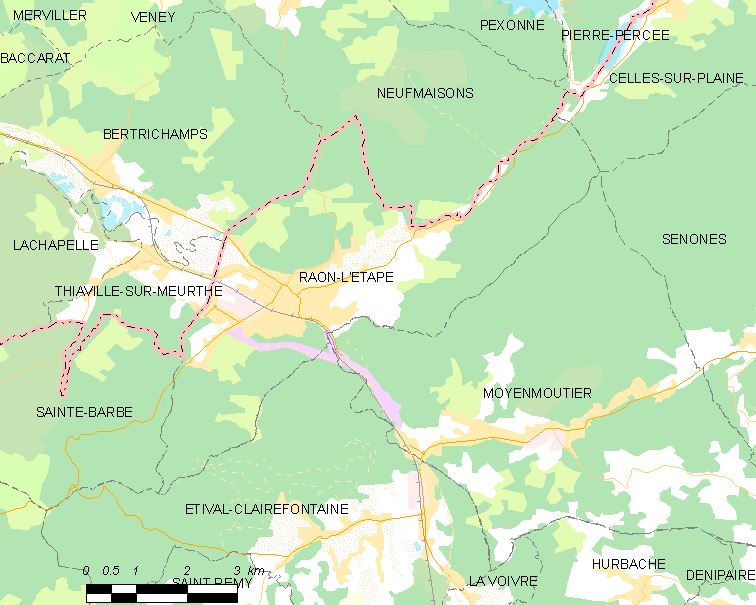 Map of French municipality Raon-l'Étape